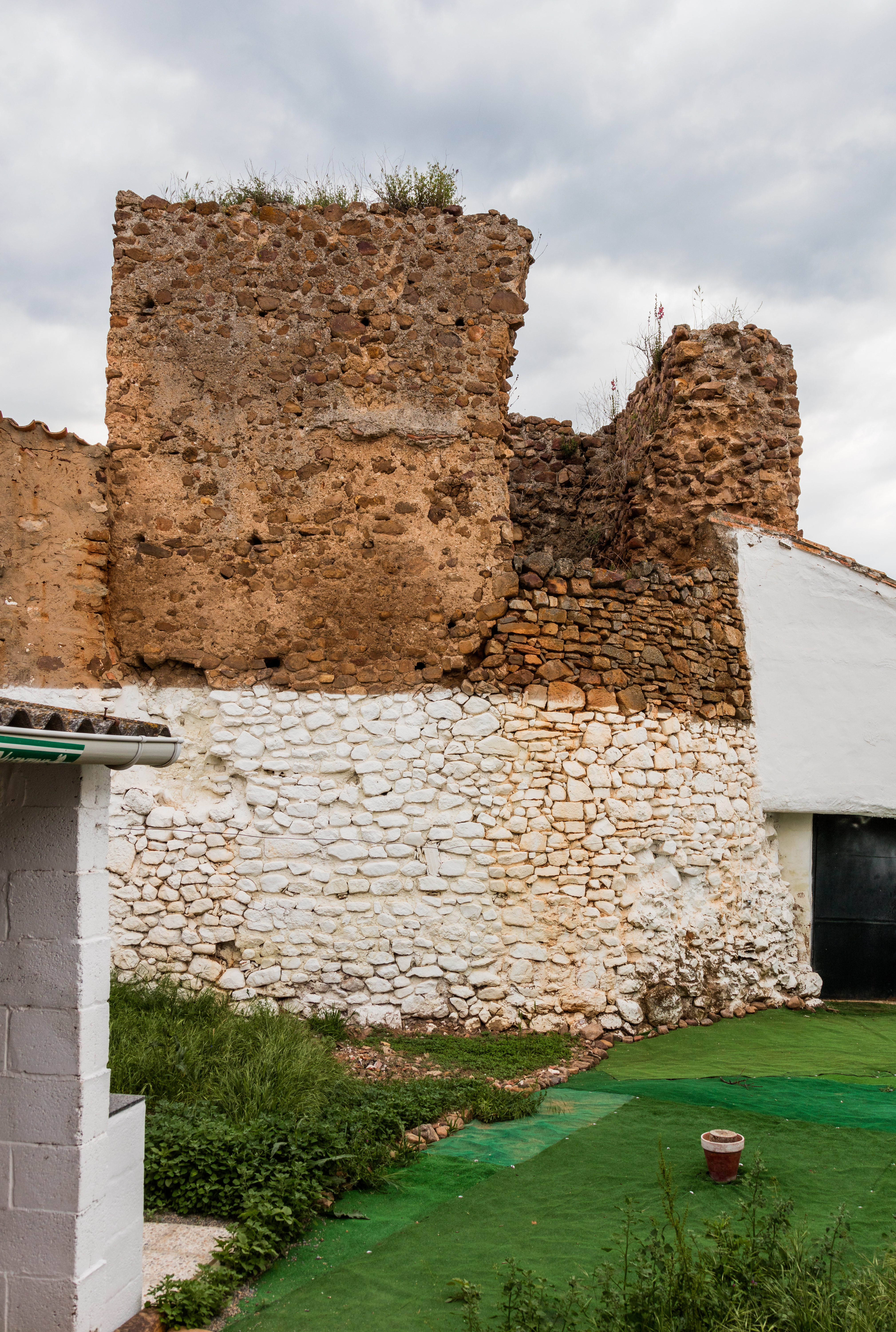 Tower of Matalebreras, Soria, Spain